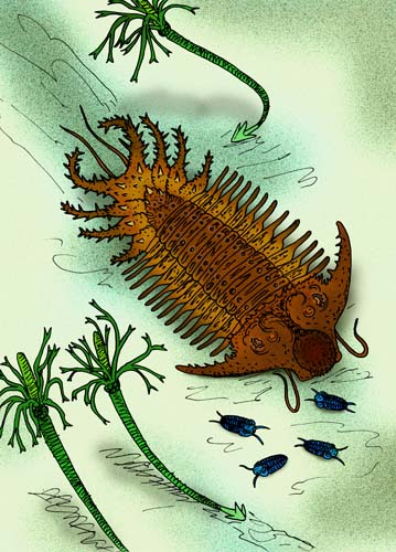 The gargantuan, 60 centimeter lichid trilobite, Terataspis grandis, of Devonian New York. (C) Stanton F. Fink